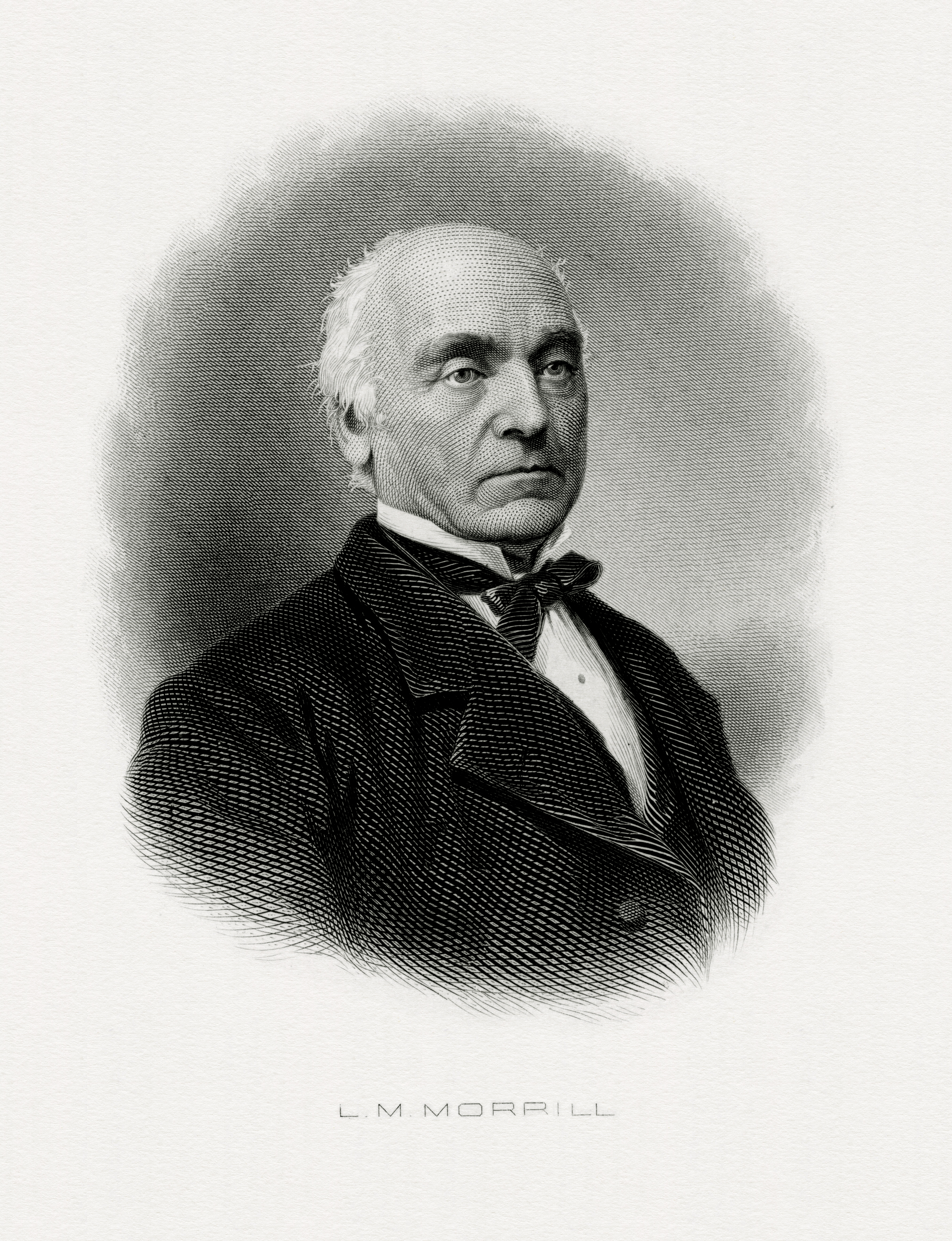 Engraved BEP portrait of U.S. Secretary of the Treasury Lot M. Morrill